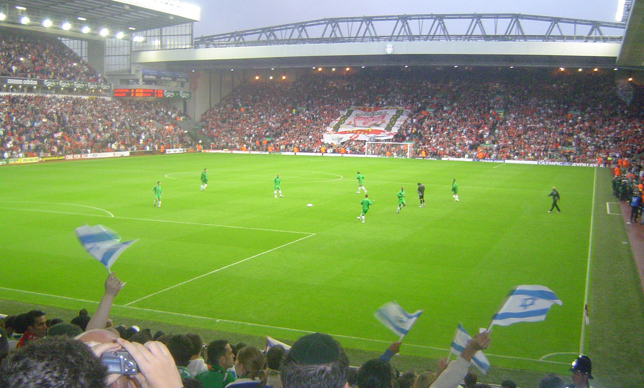 Maccabi haifa in Anfield